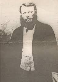 Nikolay Stepanovich Kobozev, 1st mayor of Berdiansk. Circa 1850.